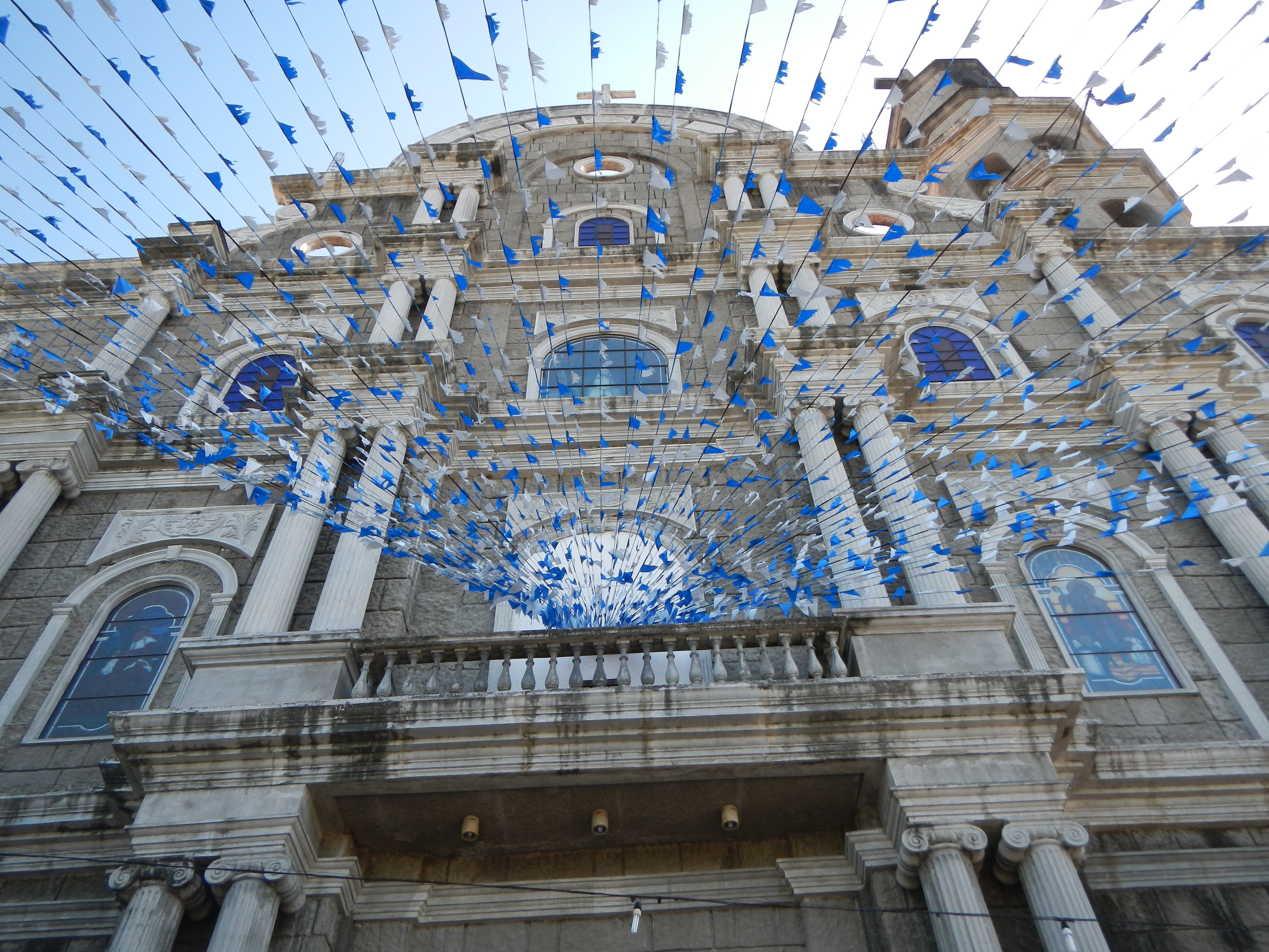 Upload Wizard photos - (general description of the landmarks, attractions, church, city hall complex) of - Nuestra Señora de la Soledad de Porta Vaga [1] Cavite City[2] (this Marian Icon is enshrined in the - San Roque Parish Church of Cavite City – 506 Plaridel st., San Roque, Cavite City [3] District 2, Vicariate of Porta Vaga[4] [5] [6] [7] [8] [9] Cavite City[10] (a fourth class city in the province of Cavite, Philippines; enclosed by Bacoor Bay to the southeast and Cañacao Bay to the northeast, divided into five districts: Dalahican, Santa Cruz, Caridad, San Antonio, and San Roque; subdivided into 8 zones and a total of 84 barangays, 2010 census, has a population of 101,120 people in a land area of 10.89 square kilometers) - the sea shore, beach, some ships and view of Manila bay from the Heroes Welcome Arch, boundary Arch of Cavite and its neighbor, Noveleta, Cavite[11] [12] [13] [14] Tourism [15] Coordinates: 14°28'37"N 120°53'59"E.